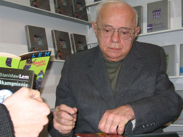 Stanisław Lem (1921-2006), Polish philosopher and SF writer